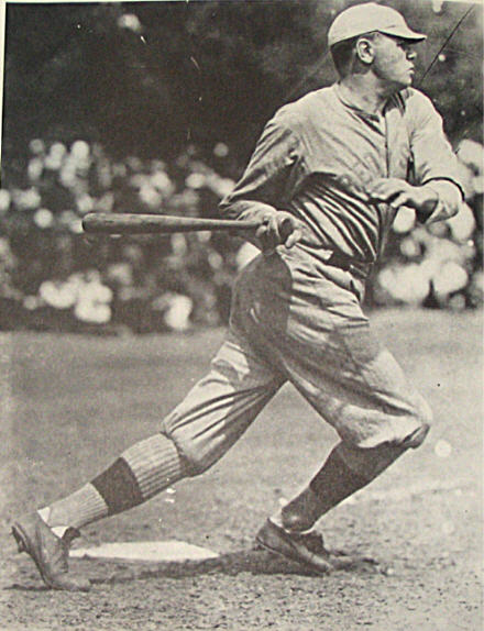 In 1918, Babe Ruth started to make his move more from an a pitcher to more an everyday batter. 1918 was the first year Ruth led the league in home runs. This is an interesting early photo of young trim Ruth batting, an image that I believe was used by the U.S. Post Office as a commemorative stamp of Ruth.